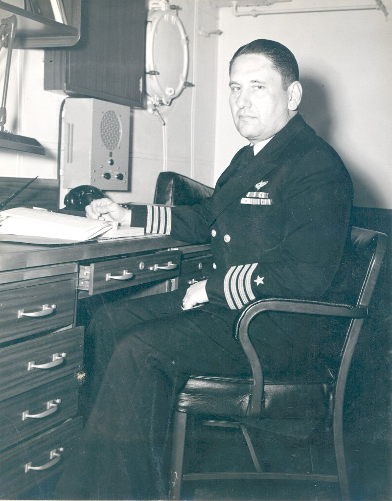 William Dodge Sample (9 March 1898–2 October 1945) was a Rear Admiral in the United States Navy and an Escort Carrier Division commander in World War II. He was the youngest rear admiral in the Pacific Ocean theater of World War II.